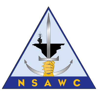 Naval Strike Air Warfare Center logo.